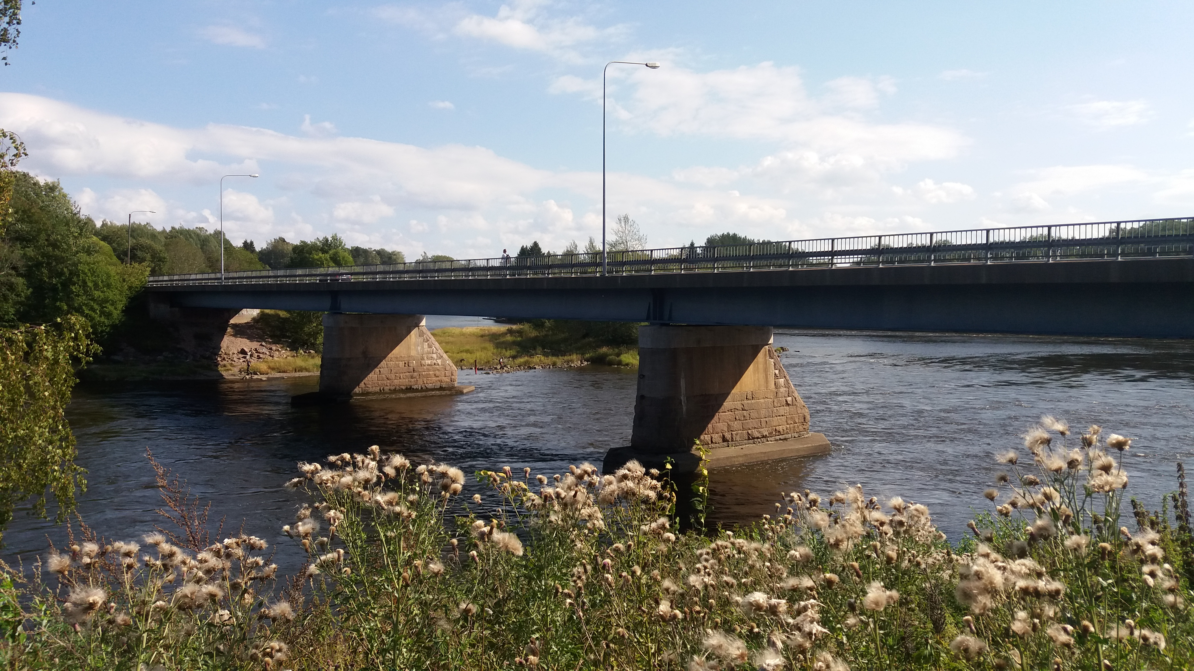 Arantila bridge crossing the river Kokemäenjoki, Nakkila, Finland.